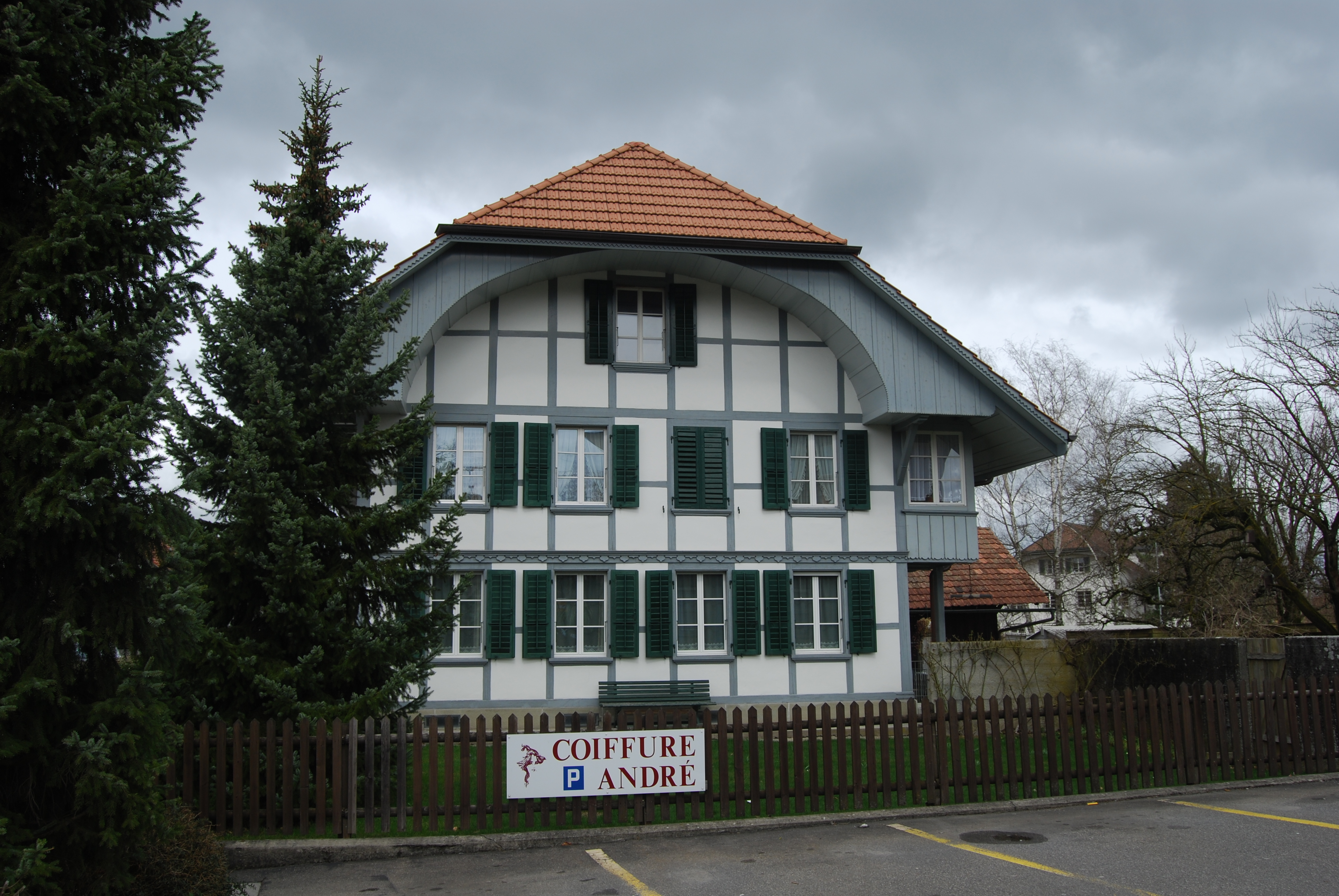 Timber framing house at Hindelbank, canton of Bern, SwitzerlandEsperanto: Faktrabdomo en Hindelbank, Kantono Berno, Svislando